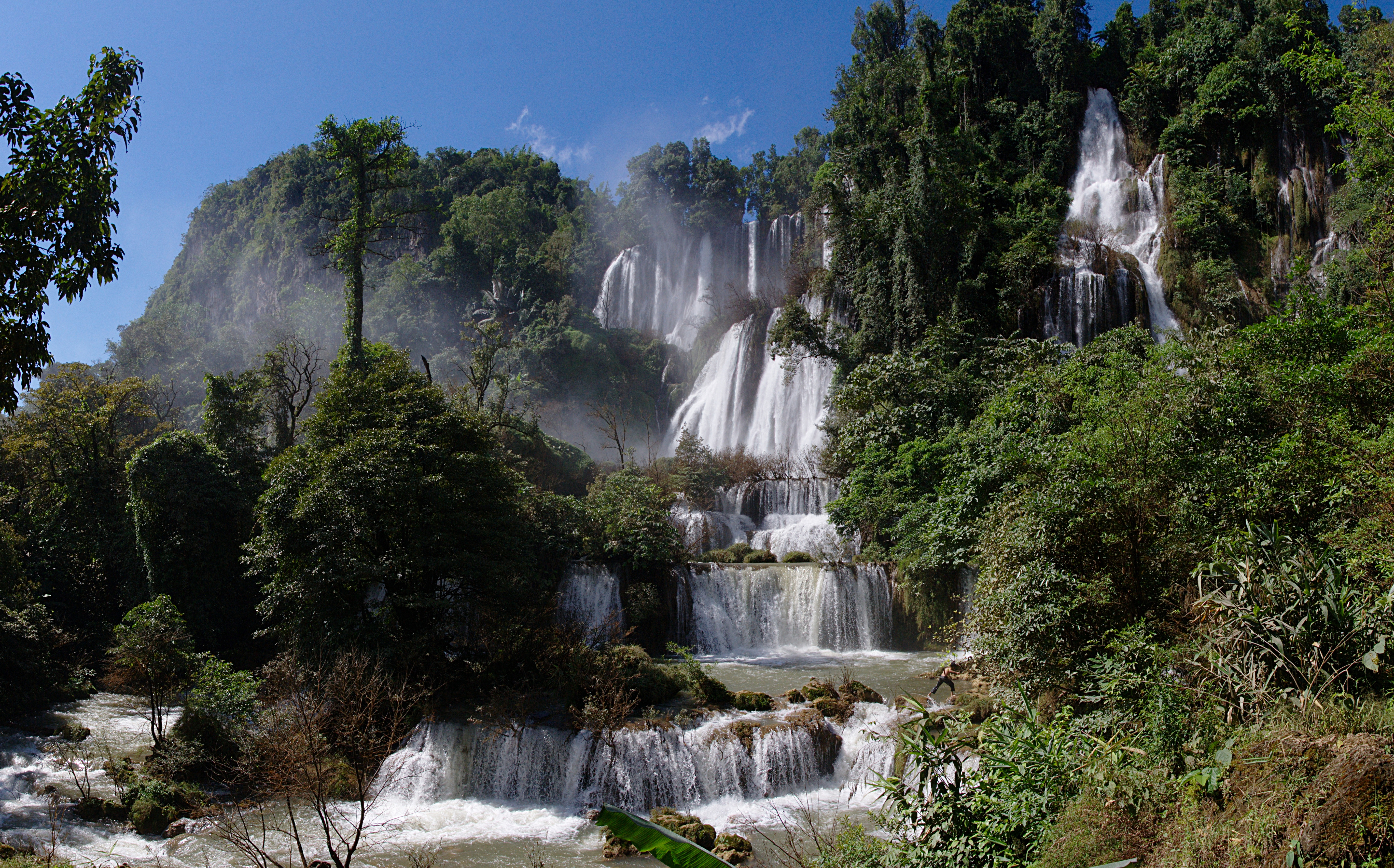 Thi Lo Su waterfalls, Umphang district, Thailand. Wide angle shot taken from the observation deck near the bottom.